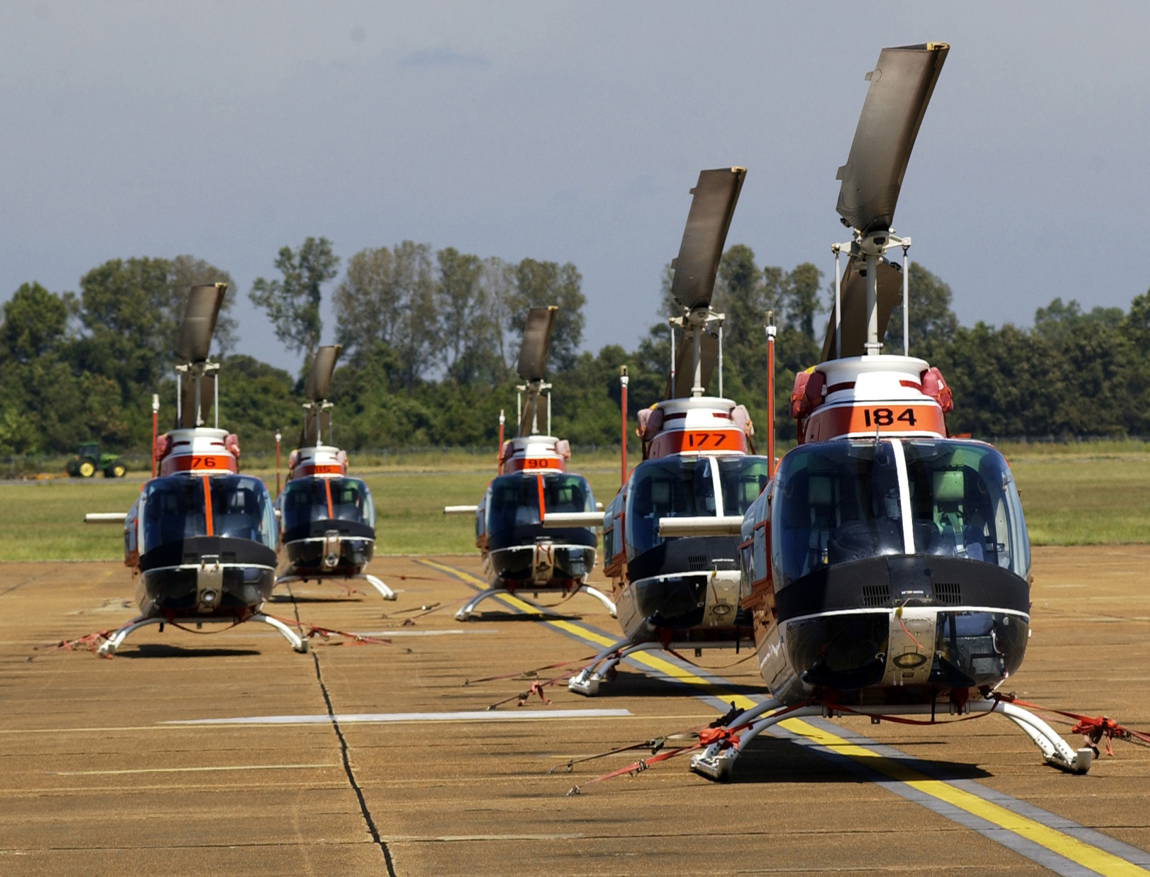 Millington, Tenn. (Sept. 15, 2004) - TH-57 Sea Ranger helicopters sit on the flight line at Millington Municipal Airport. Pilots assigned to Training Air Wing Five (TAW-5), stationed at Naval Air Station Whiting Field, Fla., flew approximately 300 training aircraft to Millington to keep them safe from Hurricane Ivan. Ivan made landfall at Gulf Shores, Ala., at approximately 0315 EST with winds of 130 MPH. Twelve deaths are blamed on Ivan as it came ashore. U.S. Navy photo by Photographer's Mate 3rd Class Joseph M. Buliavac (RELEASED)